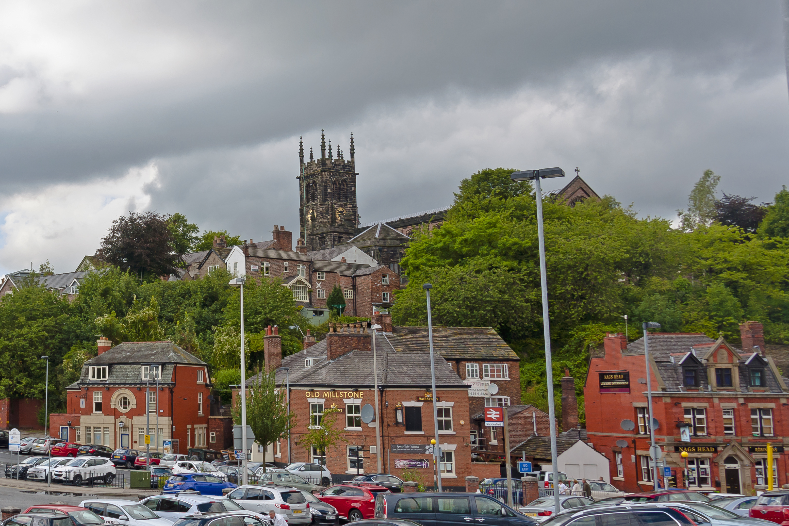 Downtown Macclesfield seen from just off the train station platform. Compare with File:View of Macclesfield from Macclesfield train station.jpg, showing almost the same view six years earlier.